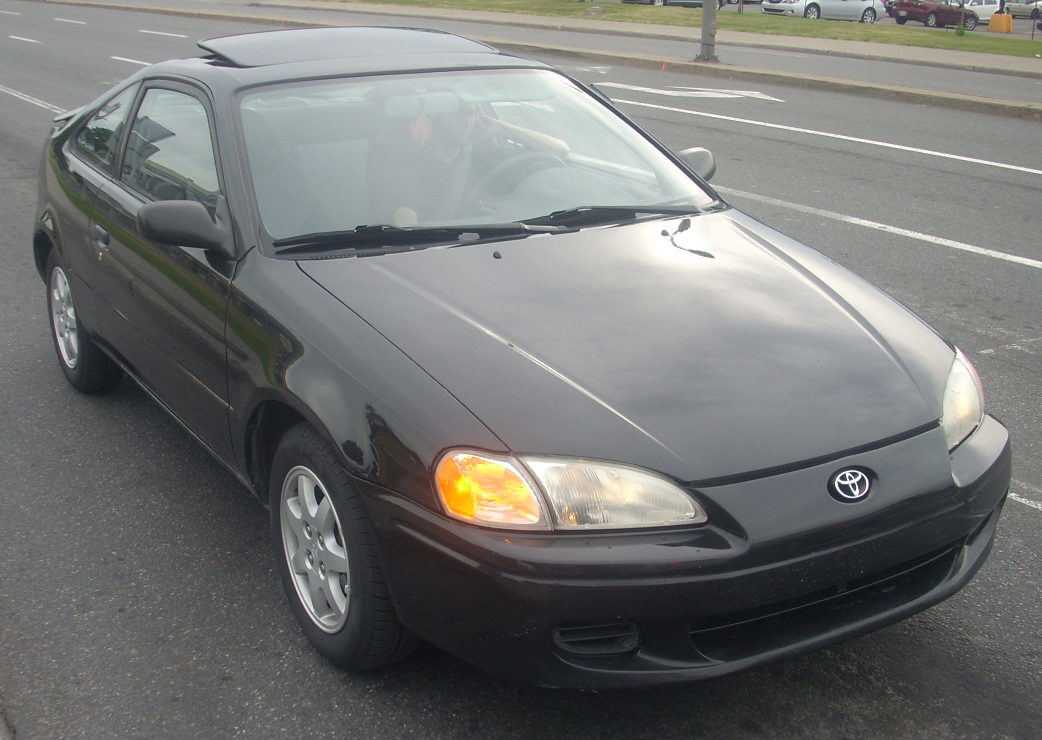 Toyota Paseo photographed in Pointe Claire, Quebec, Canada.